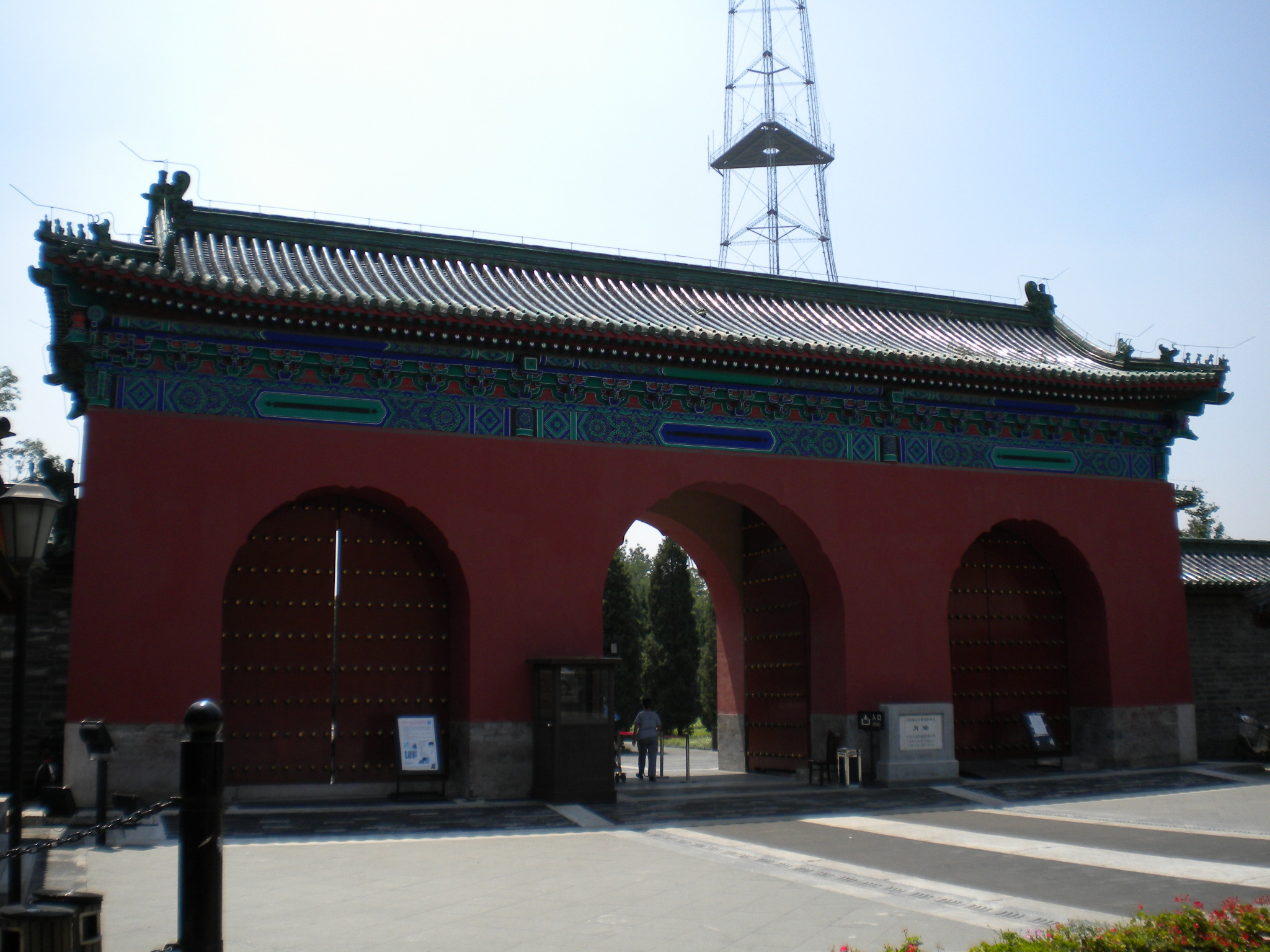 北京月坛南天门/North Holy Gate (Temple of the Moon)